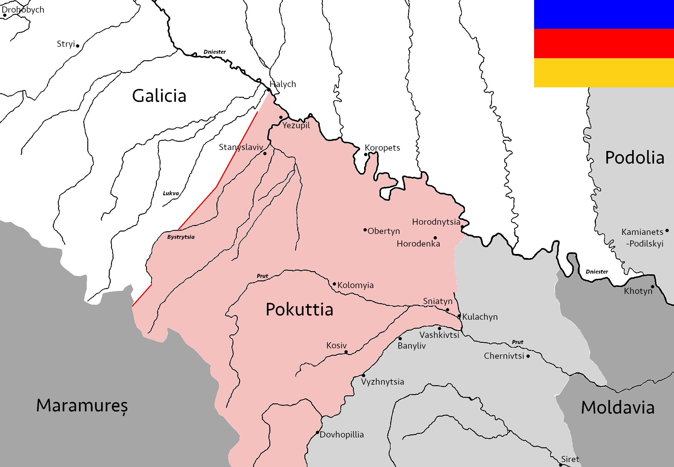 Map of the historical region Pokuttya, based on Jancu J. Nistor. Die moldauischen Ansprüche auf Pokutien. Vienna 1910